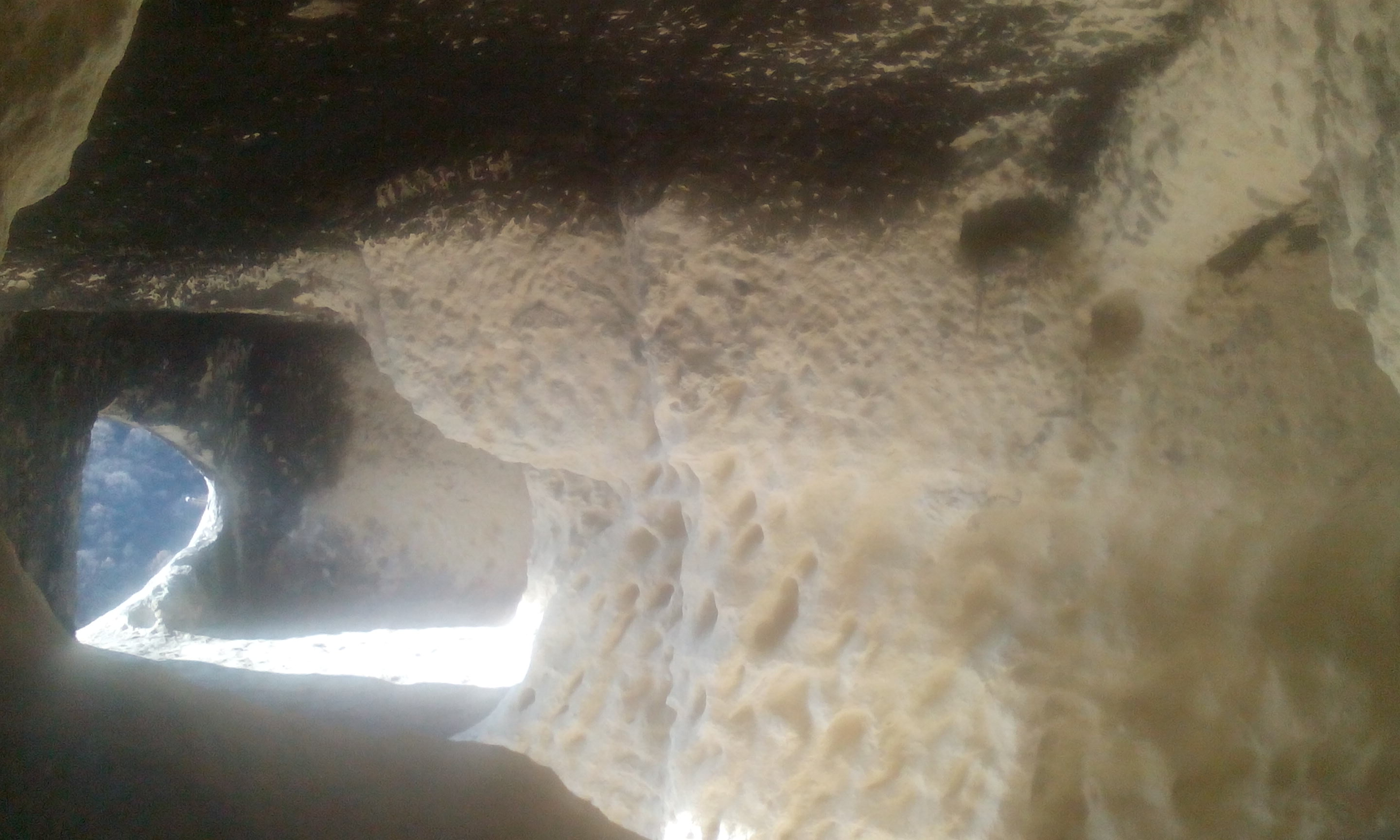 Khan Krum Rock-hewn